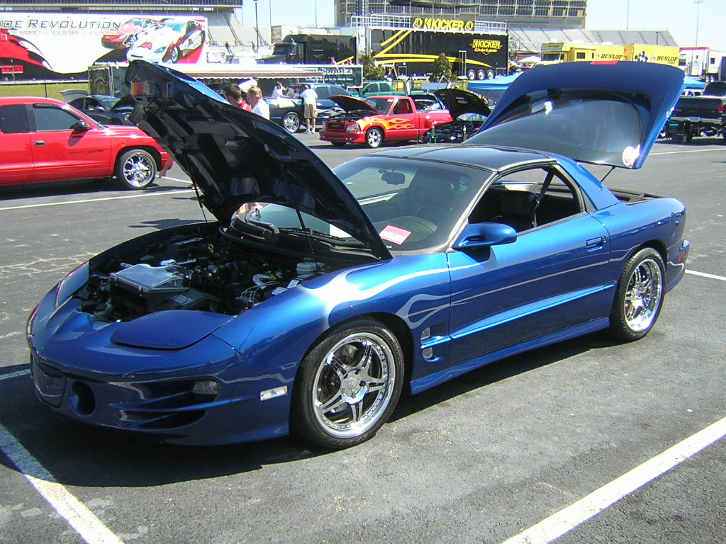 a Pontiac Trans Am at NOPI Nationals 2005